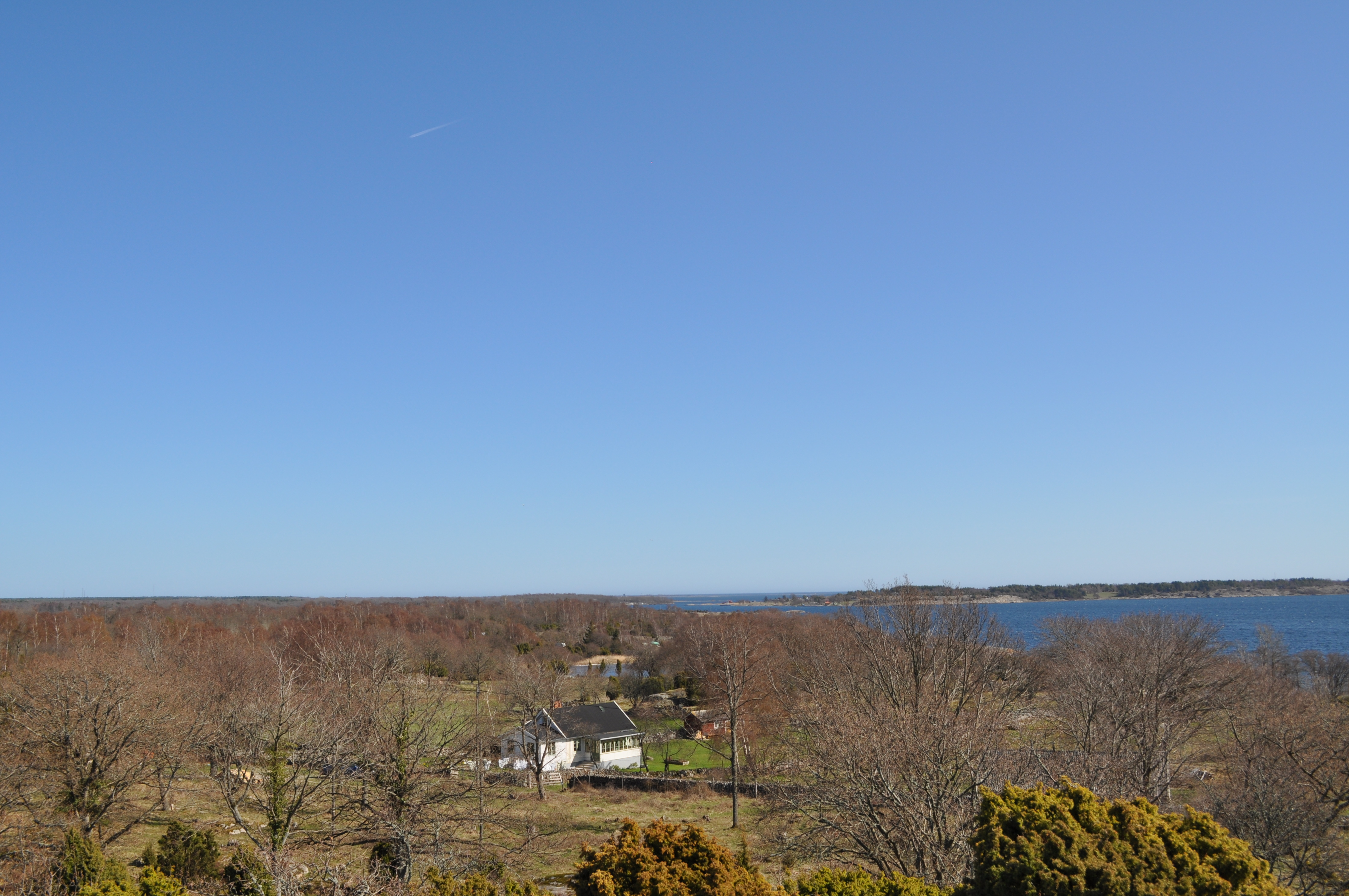 Blekinge archipelago -From Senoren east to Gåsefjärden and Ytterön